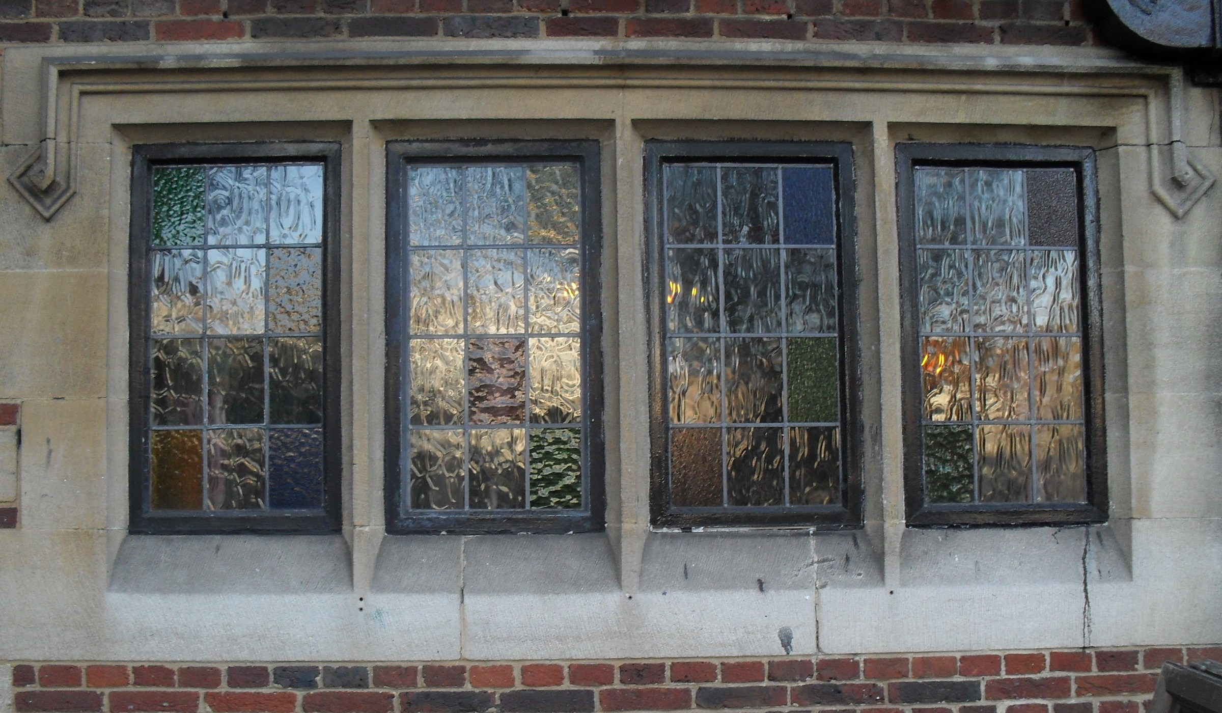 The King and Queen, Marlborough Place, Brighton, City of Brighton and Hove, England. An 18th-century pub rebuilt in extravagant Mock Tudor style by local architects Clayton & Black in the early 1930s. This picture shows one of the medieval-style decorative windows. Listed at Grade II by English Heritage (NHLE Code 1381770)